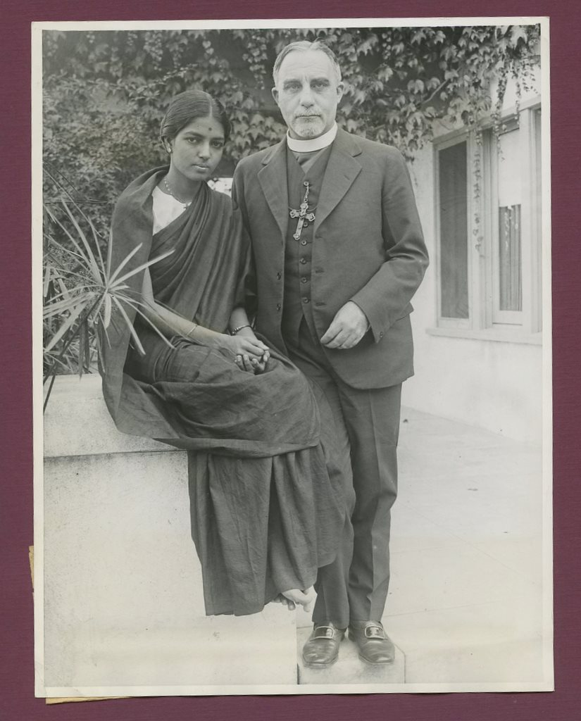 Bishop George S. Trundale and his wife, in her native costume of the high cast Brahmin, who have come to Los Angeles on a mission for the poor of their country.